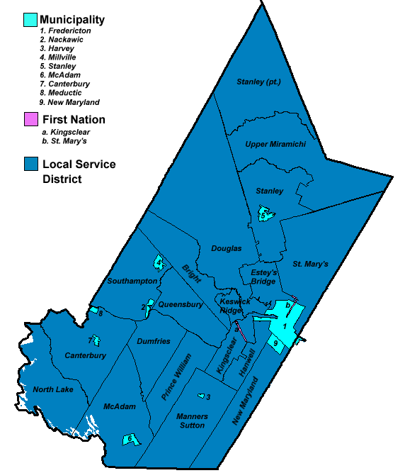 Municipal government units of York County, New Brunswick. Based on files from Service New Brunswick